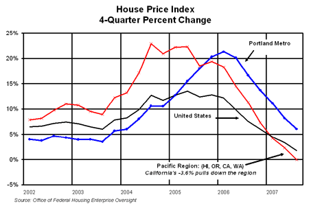 A graph of the house price index in Portland, Oregon from 2002 to 2008. It compares Portland with the Pacific Northwest and the United States as a whole.